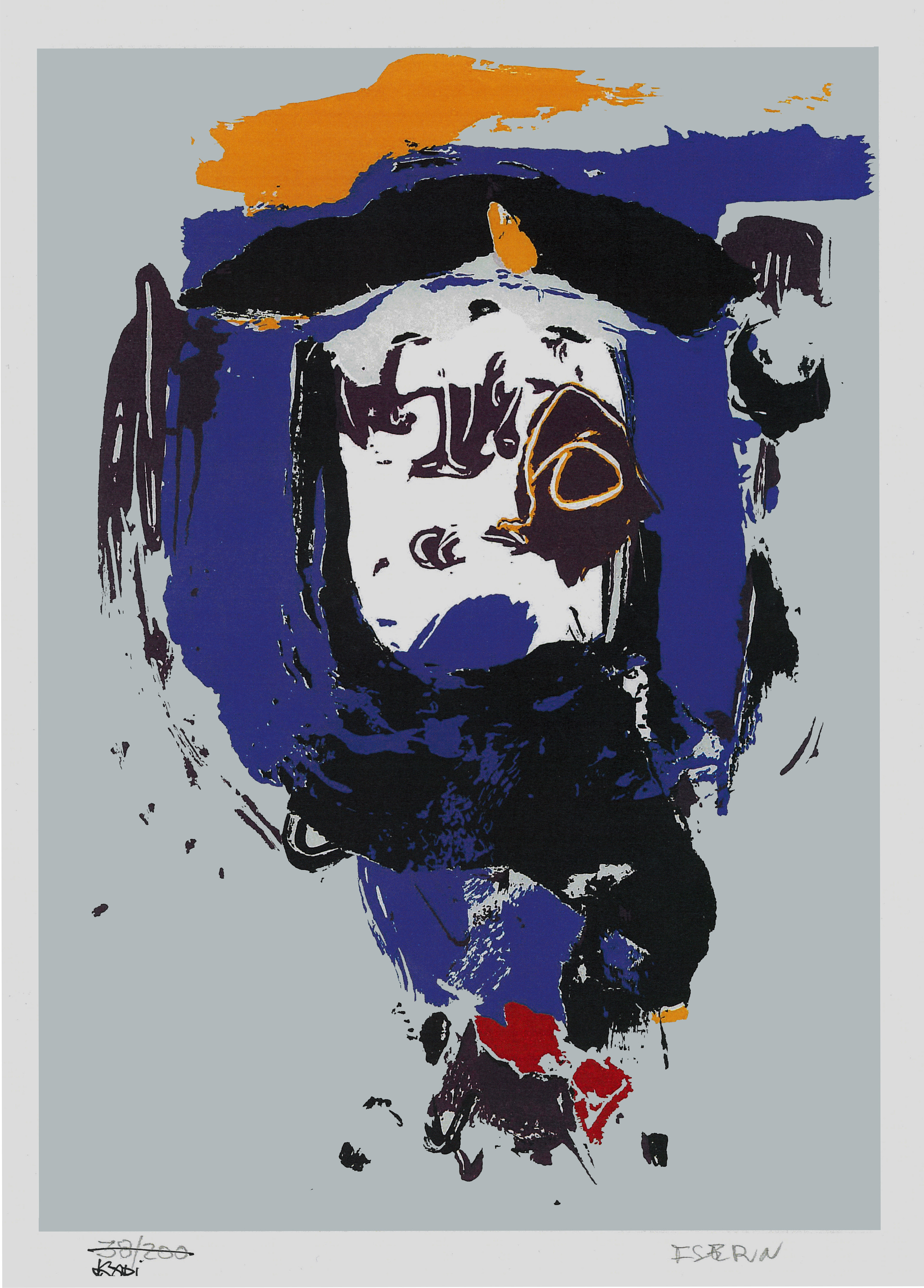 Serigraphy by the Spanish-Norwegian artist Ramon Isern